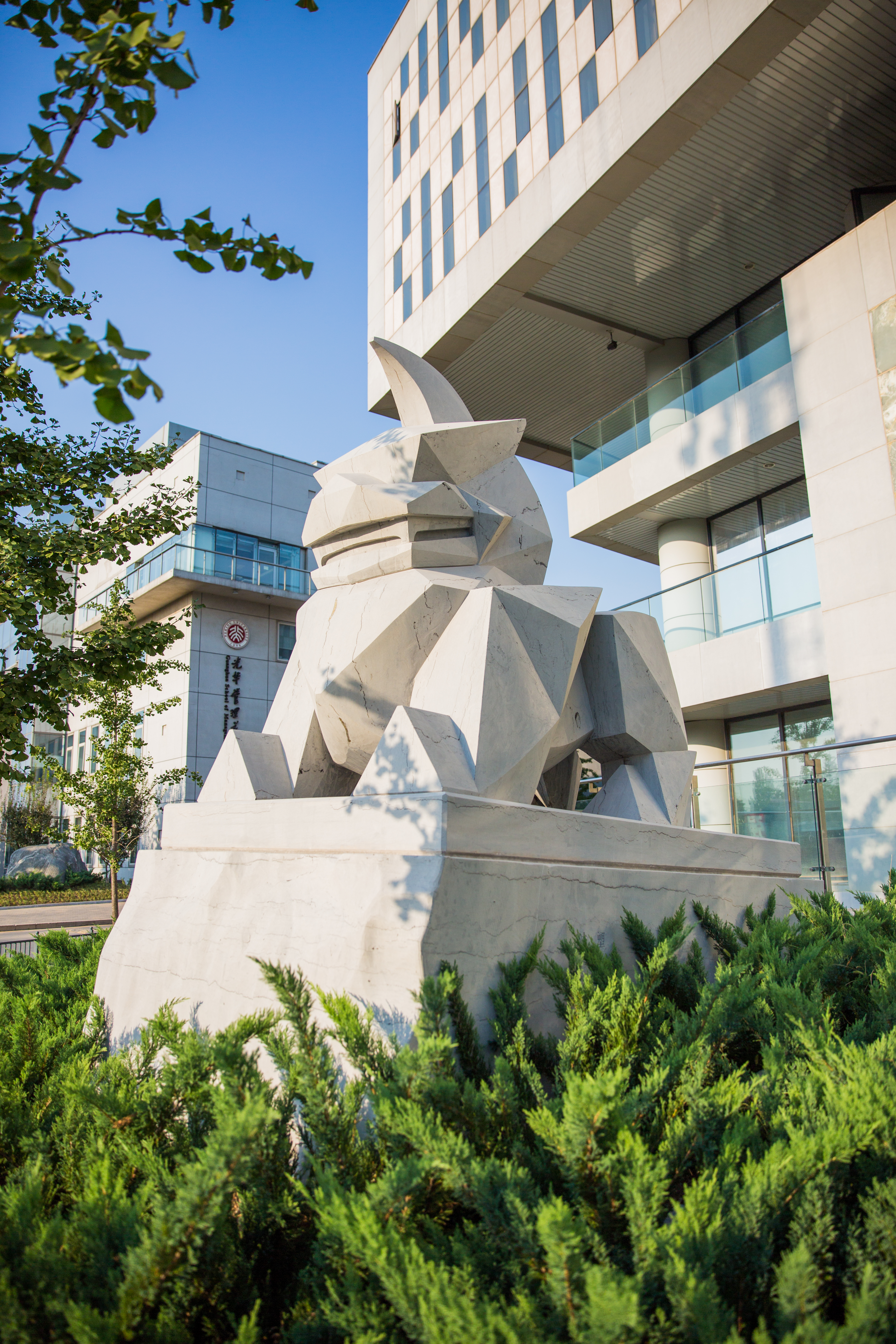 The sculpture of 獬豸, situated in front of PKU Law's Kaiyuan Building.